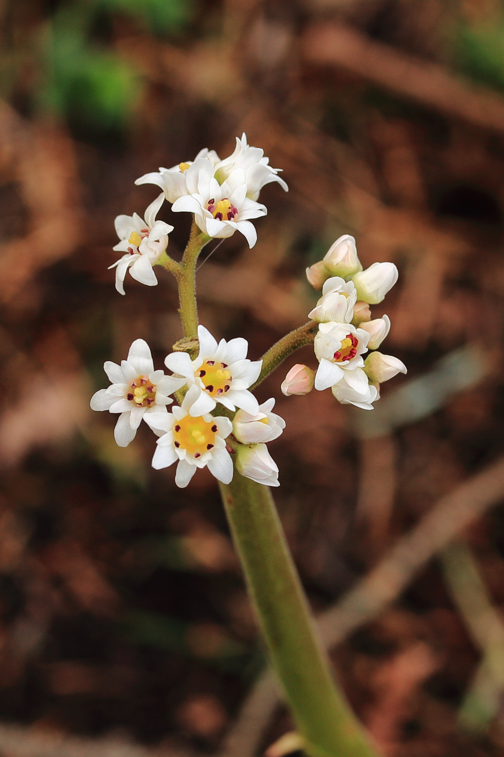 Small flowers of Mukdenia rossii.